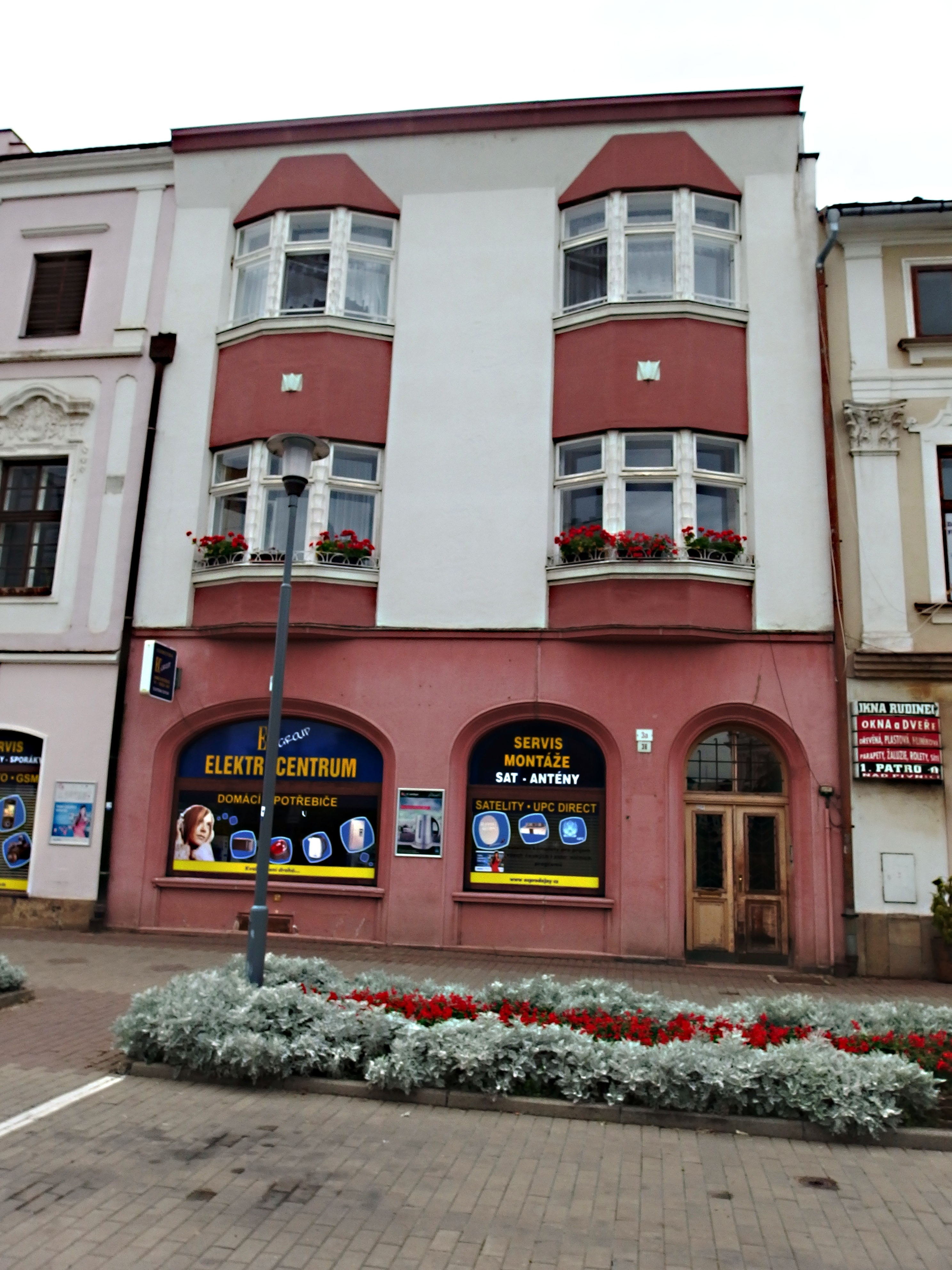 Krnov, Bruntál District, Czech Republic.